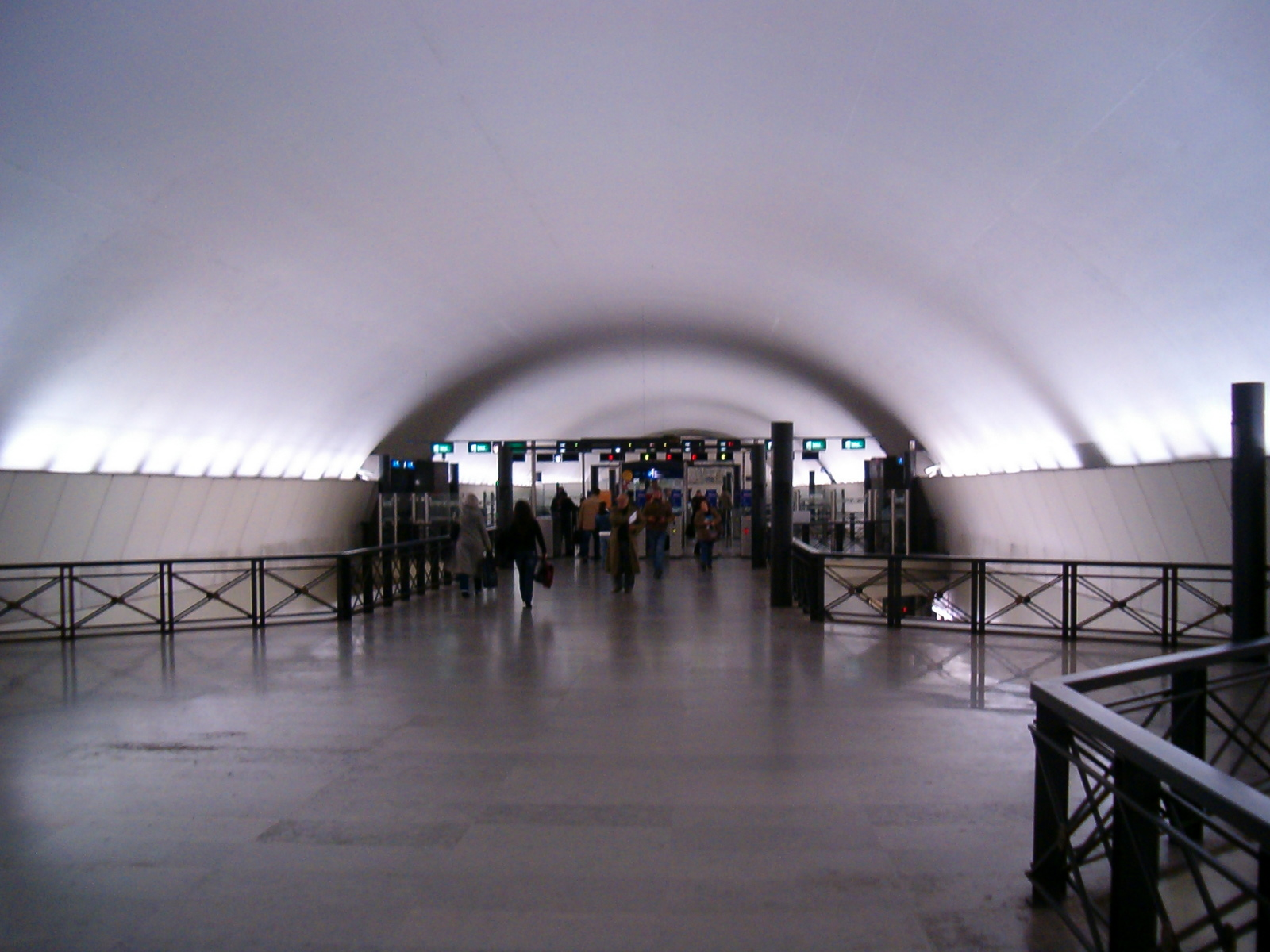 Metro station Rato (Lisboa)